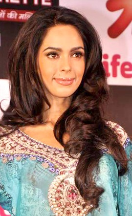 Mallika Sherawat at the launch of BACHELORETTE INDIA